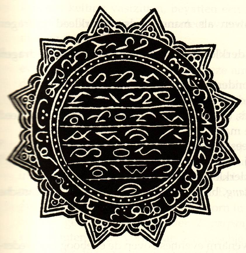 A seal used by a Batak [Sumatra] Prince who died in 1907. The actual maker of the seal is unknown.